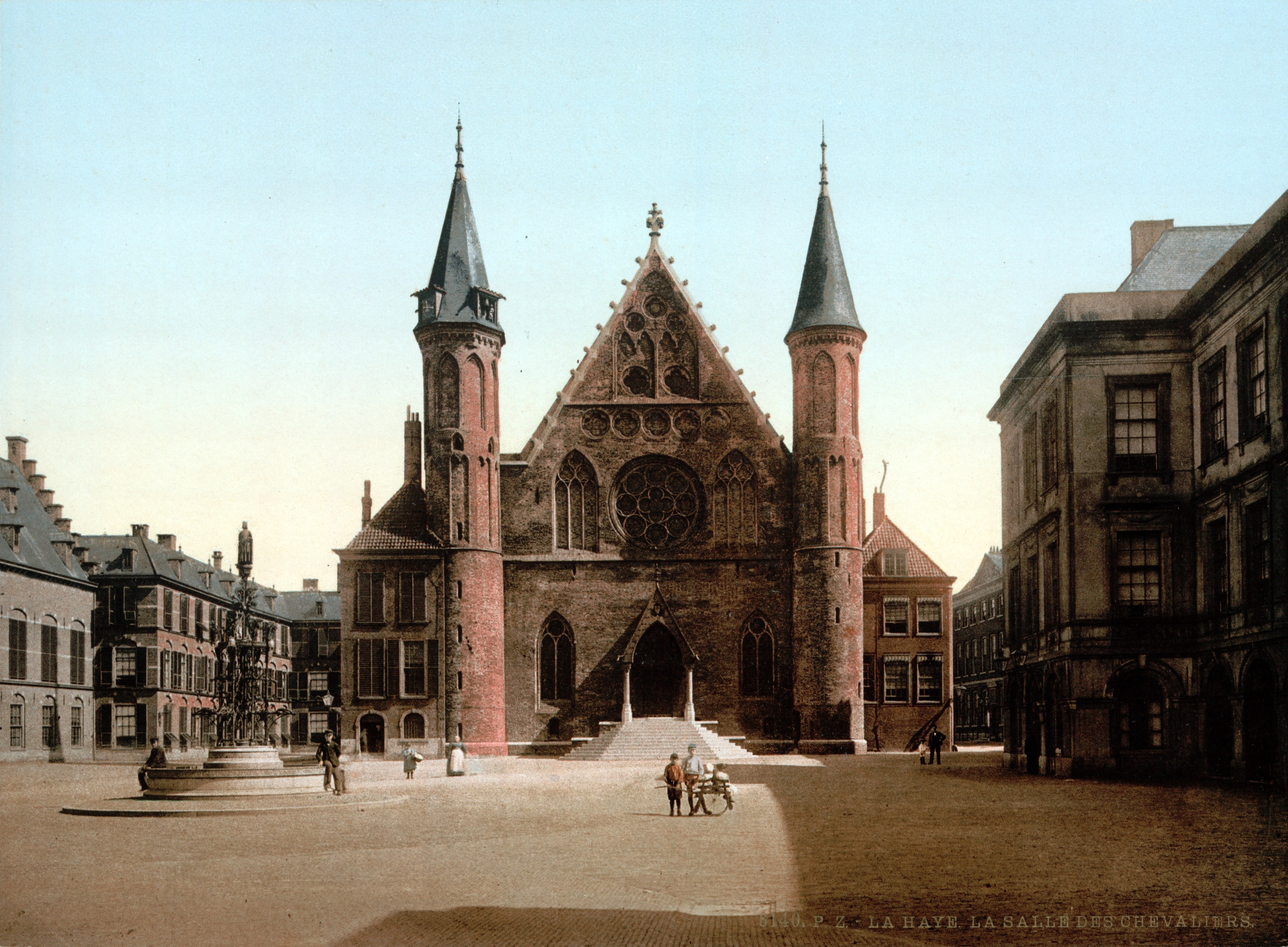 The Hague (Netherlands) - Ridderzaal